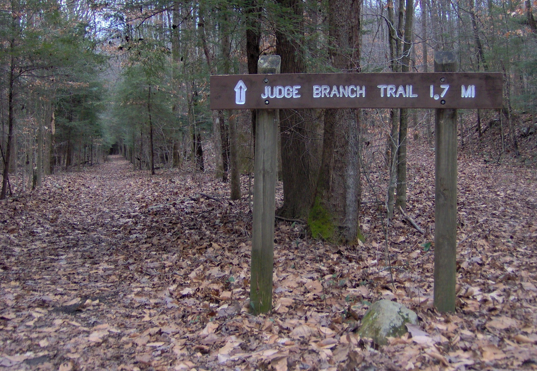 The Judge Branch Trailhead at Frozen Head State Park in the Cumberland Mountains of Tennessee, USA. The Judge Branch Trail follows the south bank of the stream of the same name. The Spicewood Trail is on the right.